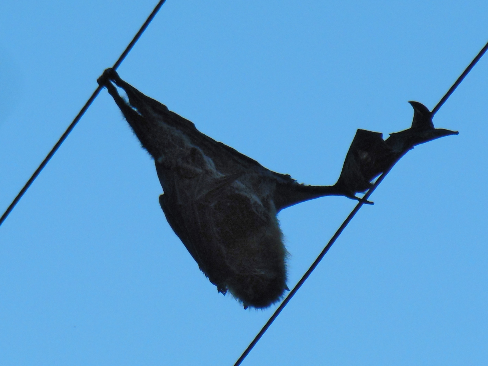 Dead flying fox on an electric wire from Hornsby, New South Wales, Australia